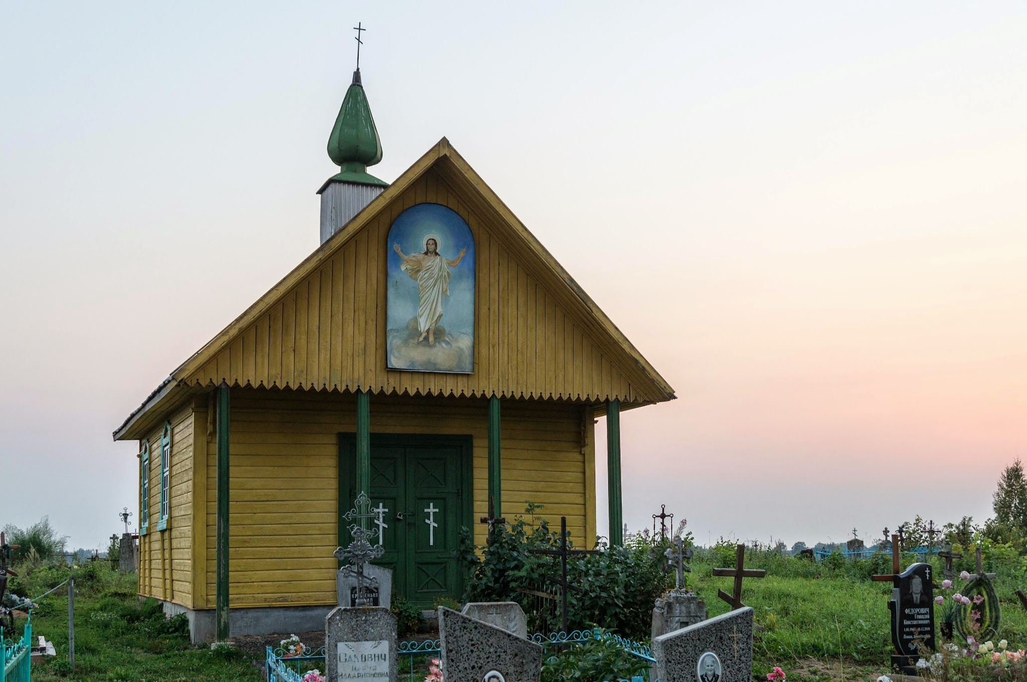 Front view of a yellow Saint Vladimir I of Kiev chapel at a cemetery (Asinaharadok)